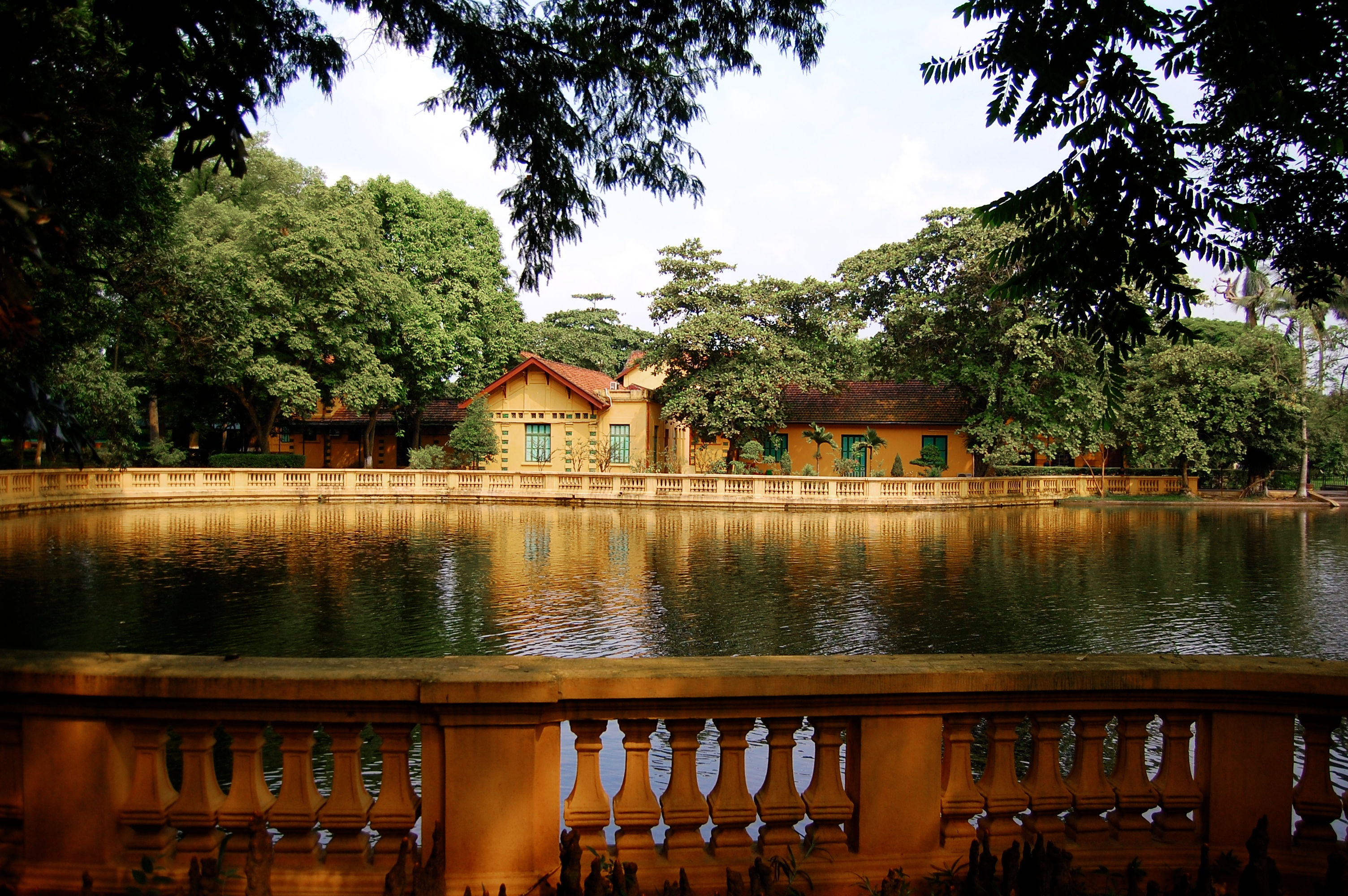 At the Presidential Residence in Hanoi